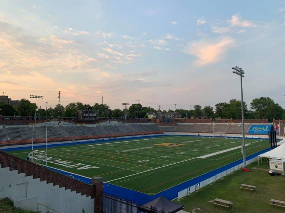 Southwest corner of Atwood Stadium